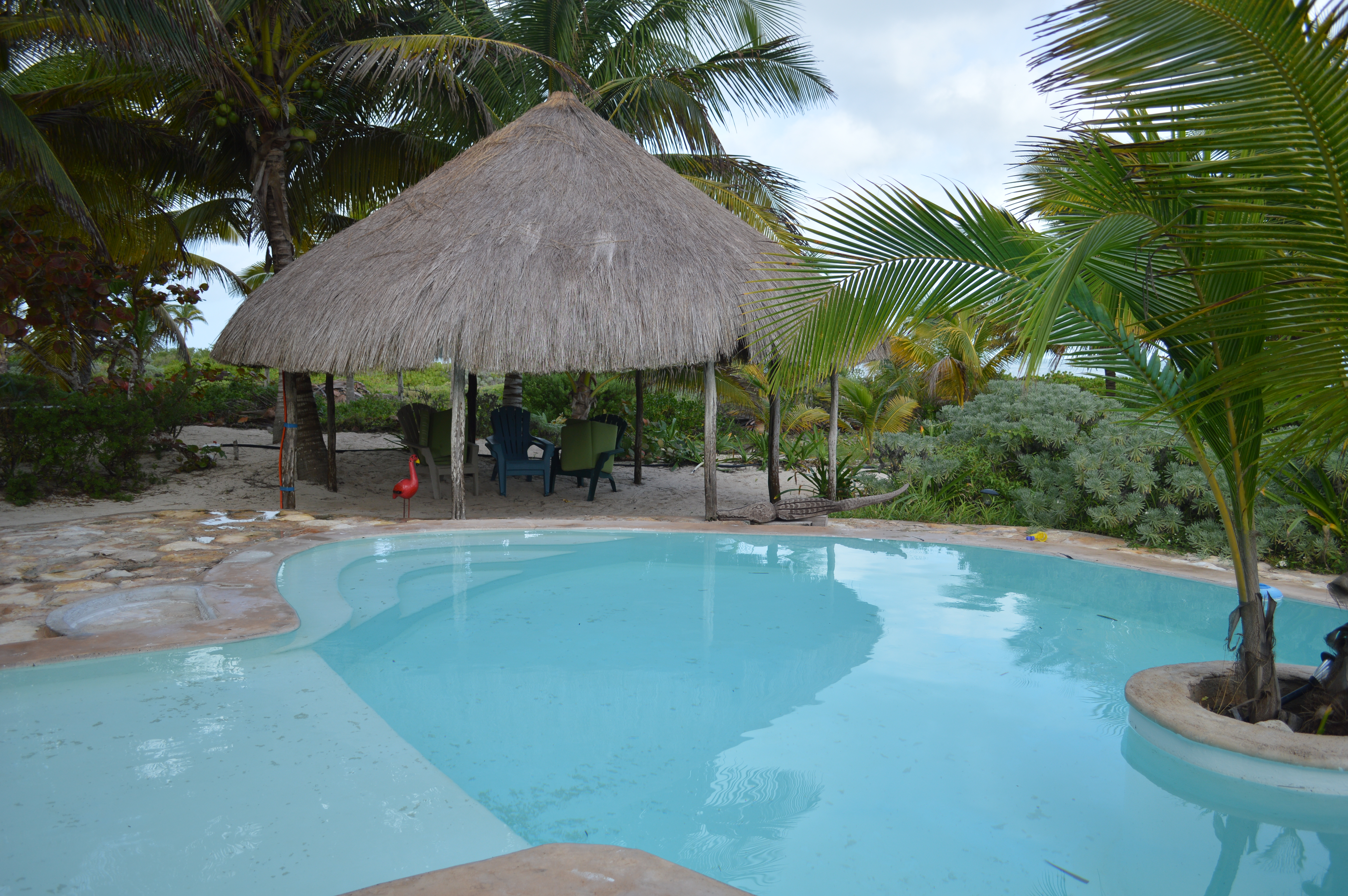 Small pool and palapa at the Las Tunas beach house in Telchac Puerto, Yucatan